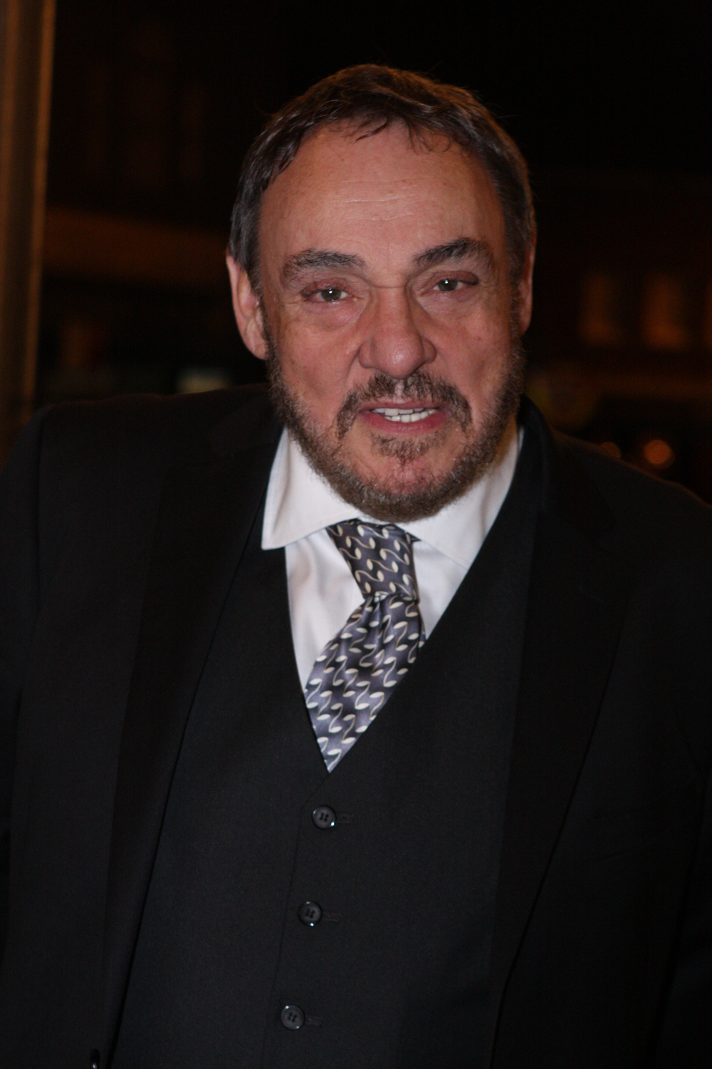 The all new remastered print, prepared especially in conjunction with 'Indiana Jones & the Raiders of the Lost Ark's' Blu-ray release, creates a spellbinding experience for Indiana Jones fans. Randwick Ritz Cinema, 43-47 Pauls Street, Randwick Wednesday, September 12, 2012 Website: Steven Spielberg and sound legend Ben Burtt went back to the original negative to create this new version of Indiana Jones & The Raiders of the Lost Ark that's entirely true to the look and feel of the original film. John Rhys-Davies will attend tonight's remastered screening. Rhys-Davies, in his pivotal role of Sallah, experienced not only a part on one of the most famous films of all time, but an inside view into the film's fascinating production process. Since starring in Indiana Jones & The Raiders of the Lost Ark, Rhys-Davies has enjoyed a rich and varied career, including the role of Gimli in the Lord of the Rings films.